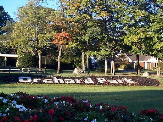 orch park, ny